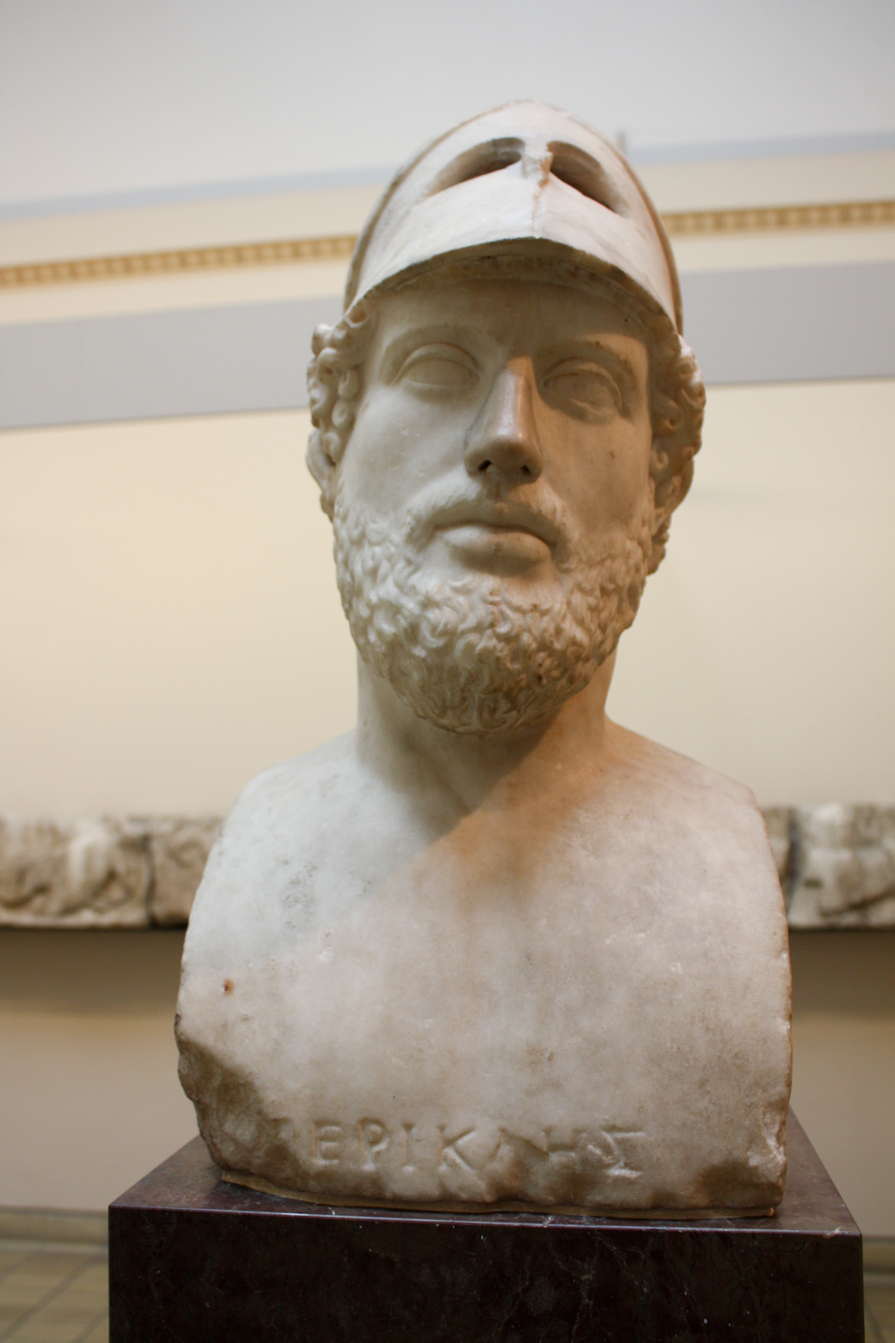 British Museum